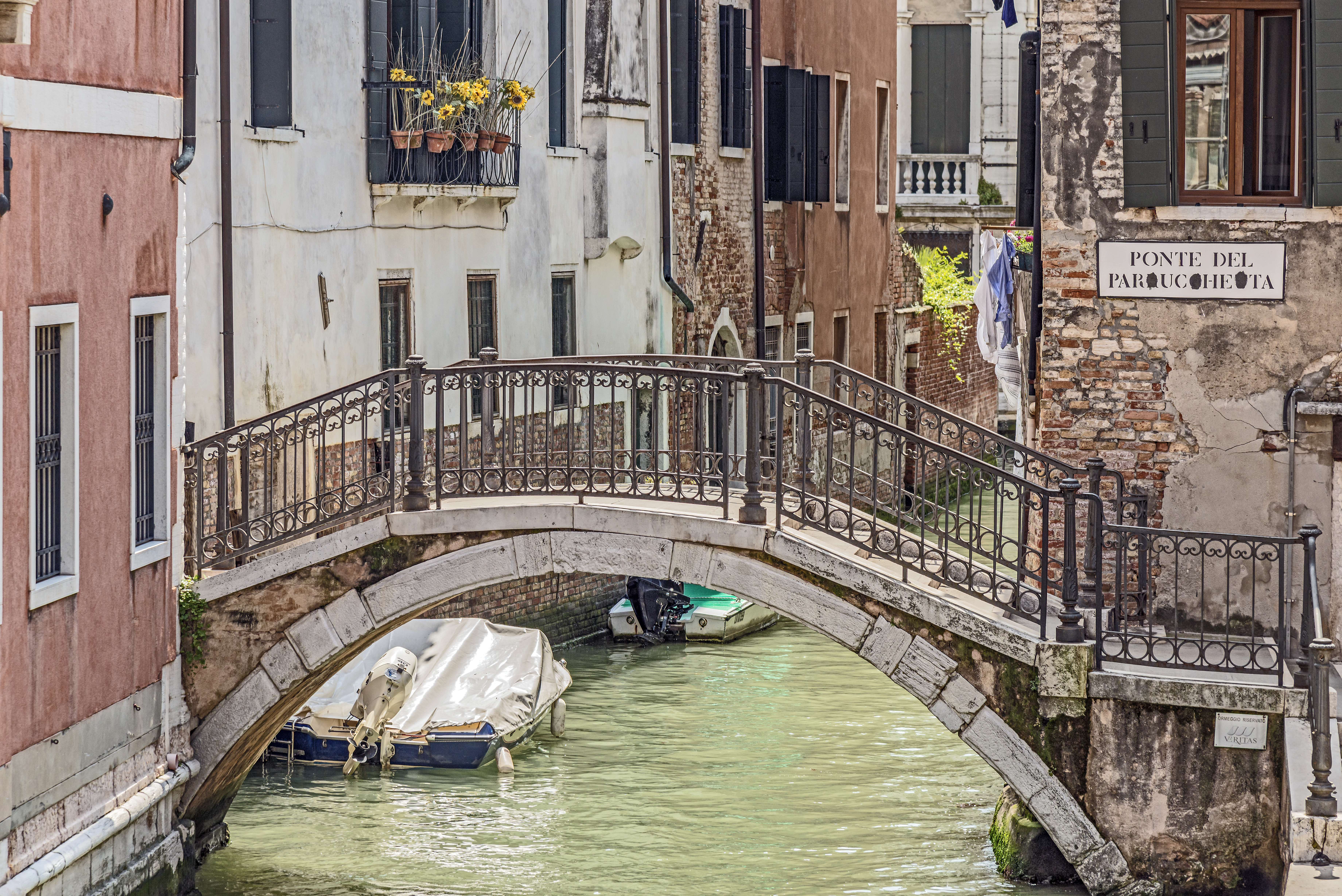 Ponte del Parucheta on Rio di San Giacomo dall'Orio - Venice